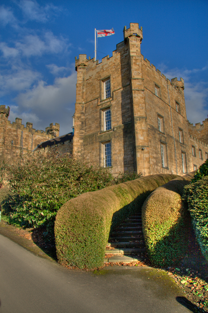 Lumley Castle Hotel This hotel is said to be haunted and holds medieval banquet evenings .